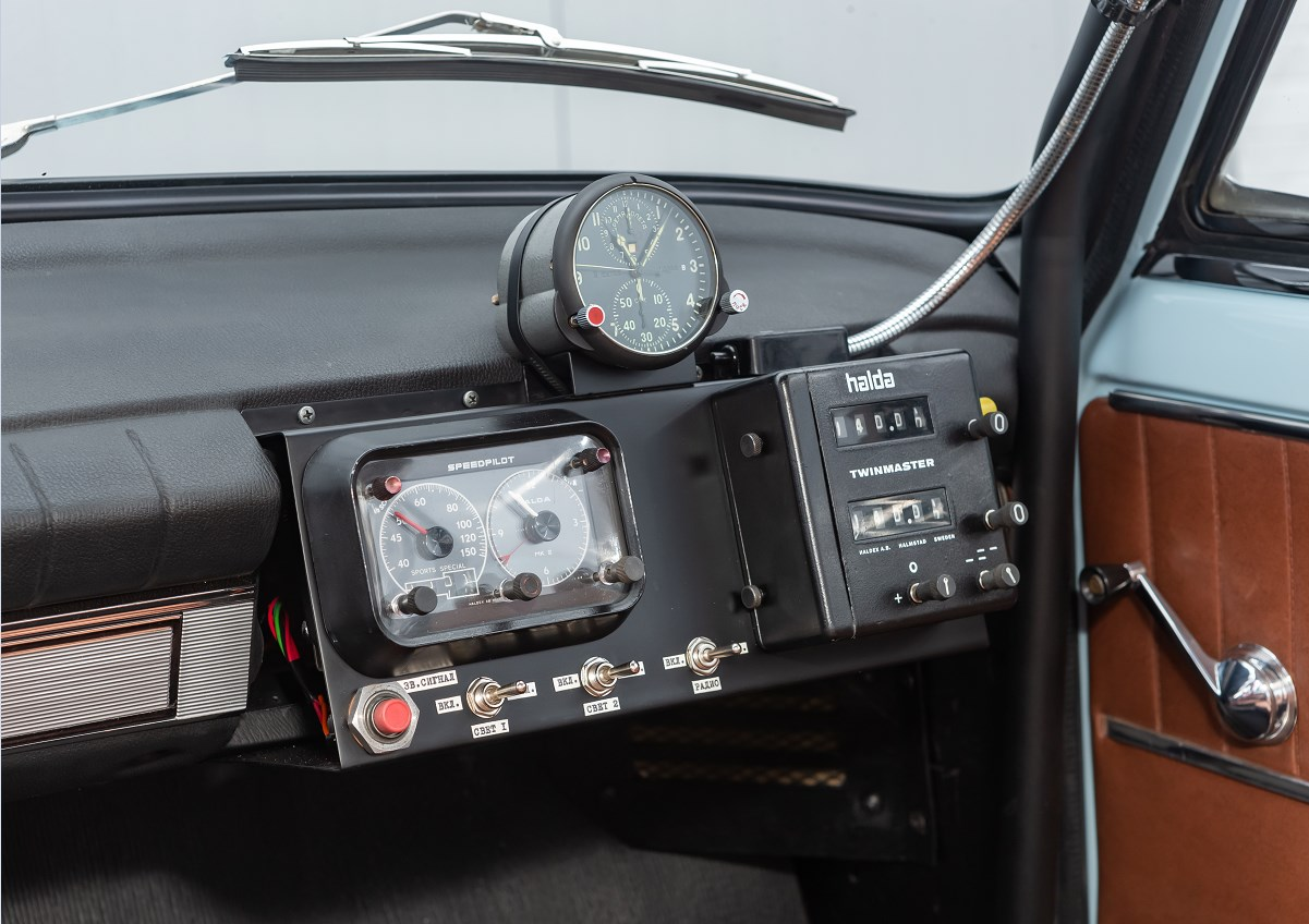 Lada VAZ 2101. ADAC Rallye Tour d'Europe 1971. Replica. Co-driver instruments